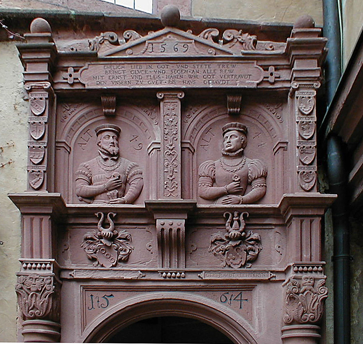 Portal inside moated castle Mespelbrunn, dated 1564, portraits of Peter Echter von Mespelbrunn and his wife Gertraud, née von Adelsheim, the parents of Julius Echter